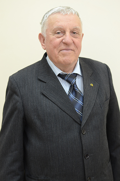 Konstantin Korotkov